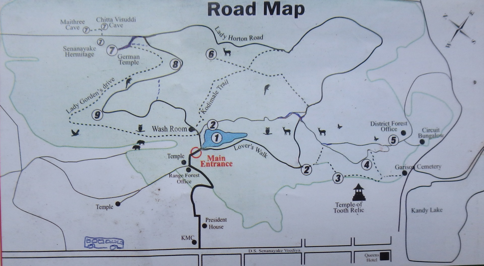 Udawattakele Forest Reserve road & path map, as in leaflet distributed by Forest Department.